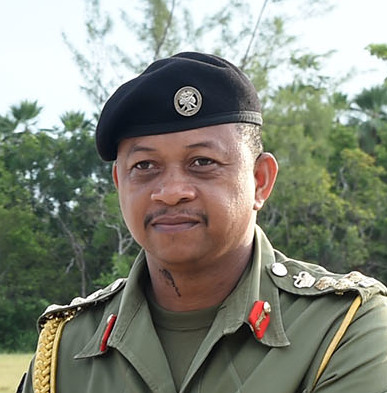 Members of the Belize Defence Force and the Louisiana National Guard celebrated the 20th anniversary of the Stare Partnership Program between Louisiana and Belize with a parade on Nov. 1, 2016, at Prince Barracks, Belize City, Belize. The Louisiana-Belize partnership is one of the oldest in the program and was established on April 23, 1996. The two countries have participated in 253 events over the last 20 years. (U.S. Air National Guard photo by MSgt Toby M. Valadie)